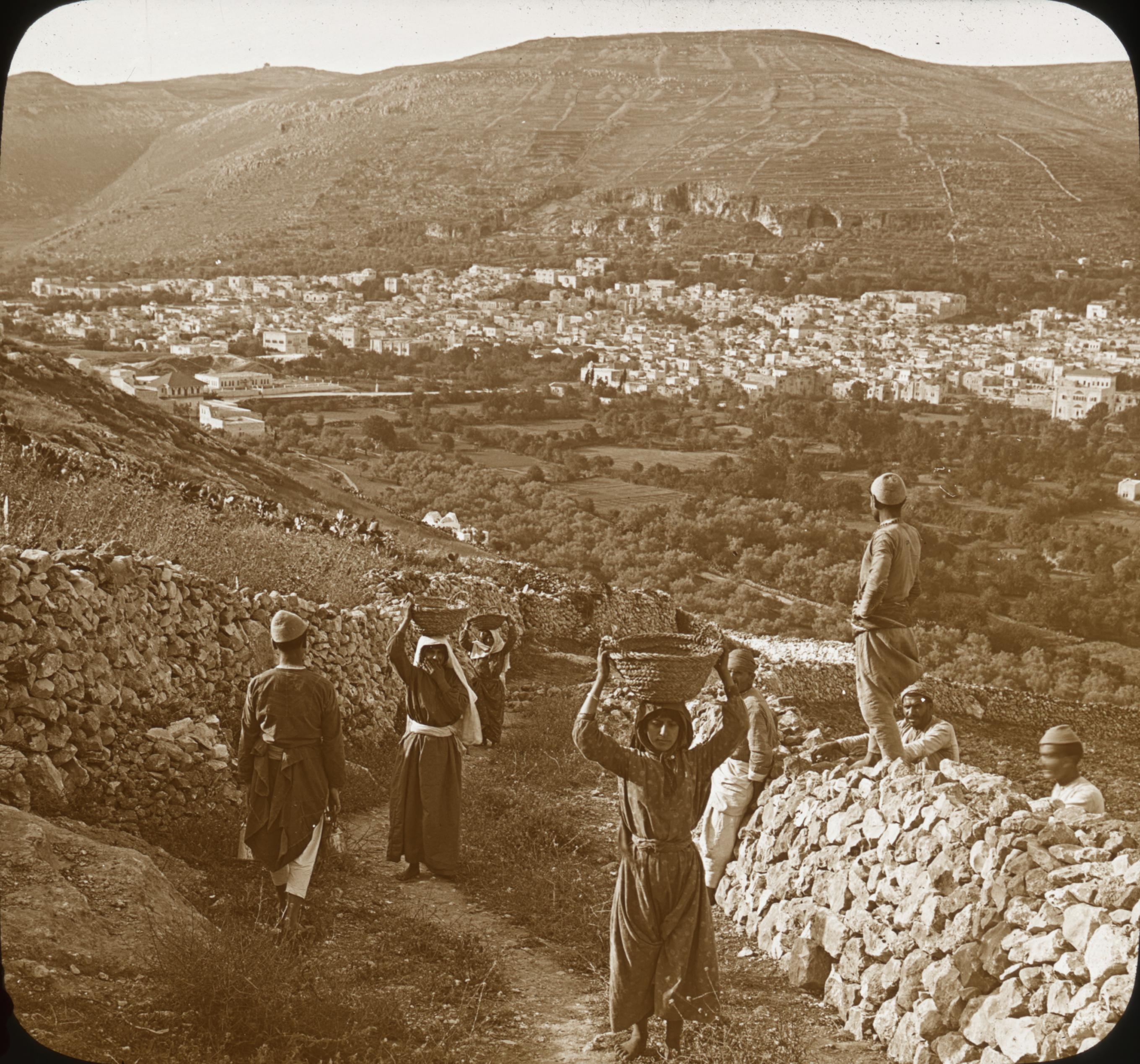 Image Description from historic lecture booklet: "In our last view we looked at Mount Ebal form the foot of Mount Gerizim from the slope of Mount Ebal. Again we see the city of Shechem, but from its opposite side, the north. The tower which was in the foreground in our last view is now far in the background on the right and scarcely visible. Schechem is the home of that ancient people, the Samaritans, who reject all the bible except the five books of Moses, and have lived apart for nearly twenty-five centuries. They look upon Mount Gerizim just as the Jews looked upon Mount Moriah, for upon it stood their temple. You remember the words of the Samaritan woman to Jesus; 'We worship in this, but ye say that in Jerusalem is the place where men ought to worship. Let us climb yonder mountain and look at its summit.'" Original Collection: Visual Instruction Department Lantern Slides Item Number: P217:set 013 020 You can find this image by searching for the item number by clicking here. Want more? You can find more digital resources online. We're happy for you to share this digital image within the spirit of The Commons; however, certain restrictions on high quality reproductions of the original physical version may apply. To read more about what “no known restrictions” means, please visit the Special Collections & Archives website, or contact staff at the OSU Special Collections & Archives Research Center for details.